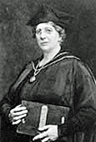 Lilian Baylis, painted portrait